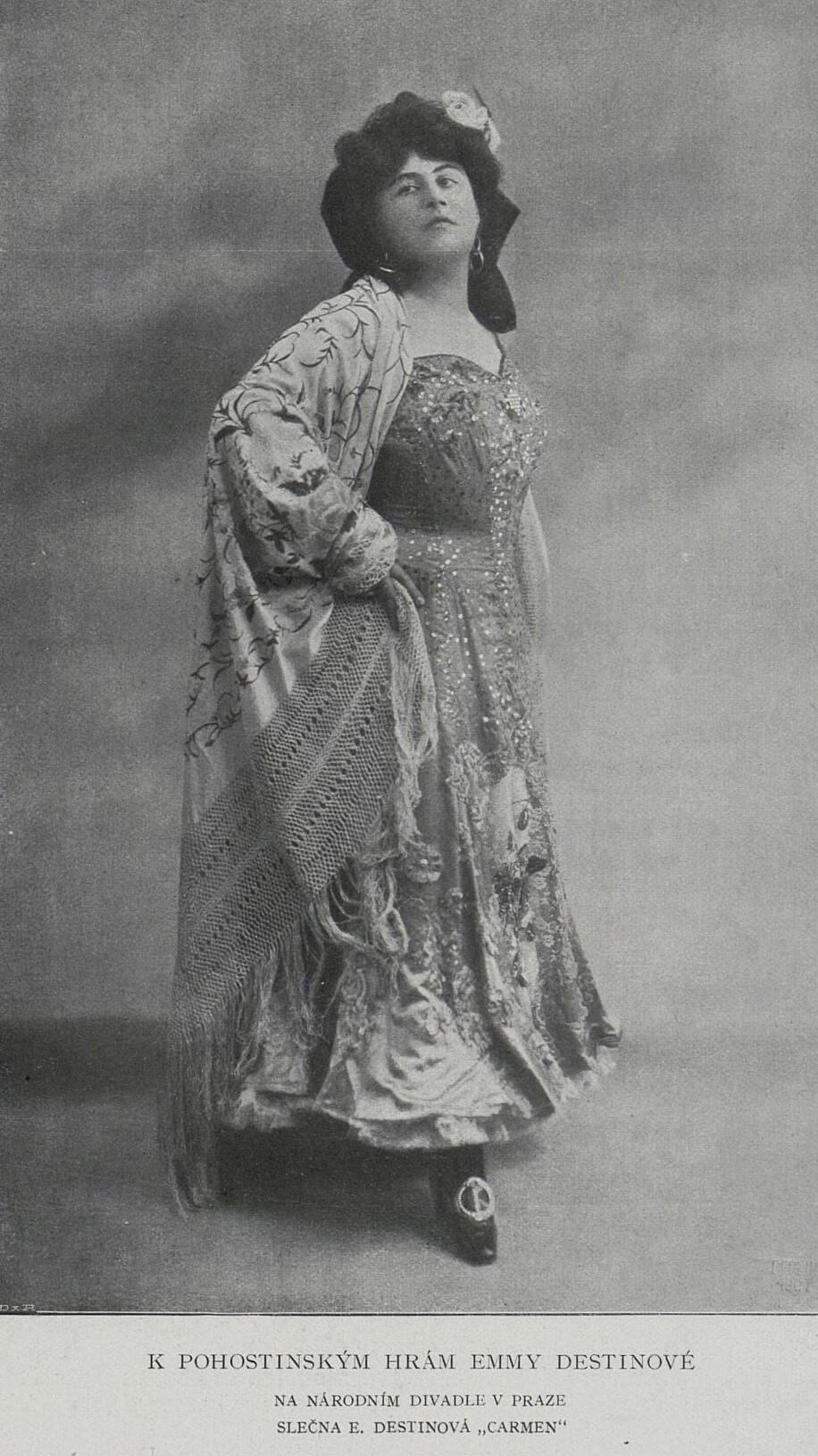 Ema Destinnová as Carmen 1907